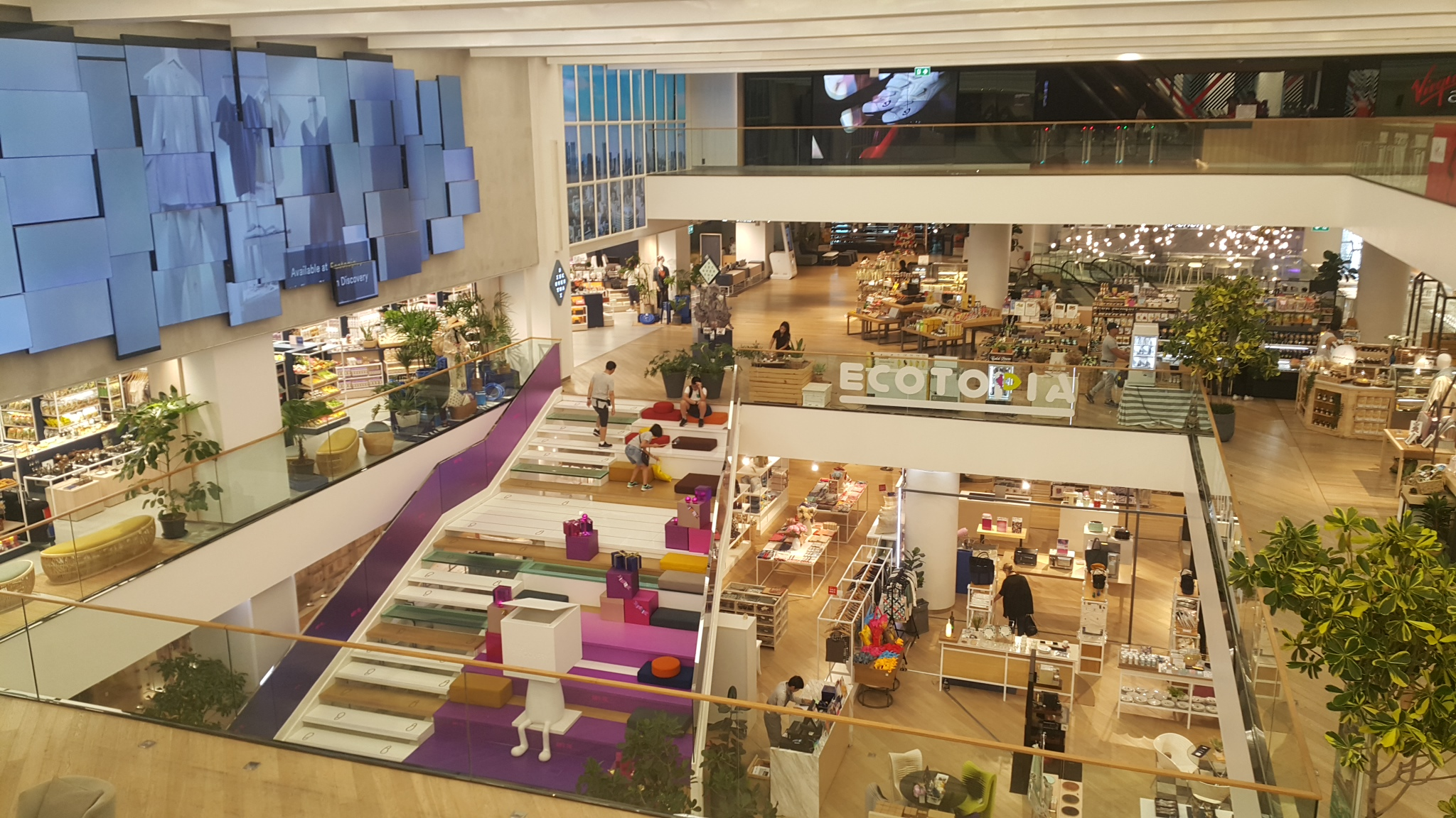 Siam Discovery inside